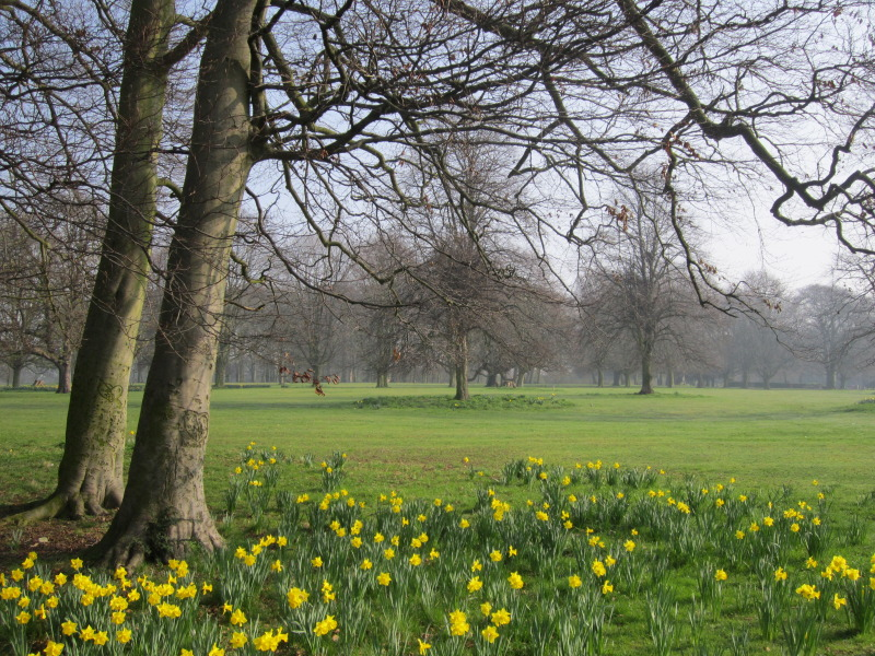 Clarkes Gardens, Allerton, Liverpool, England.